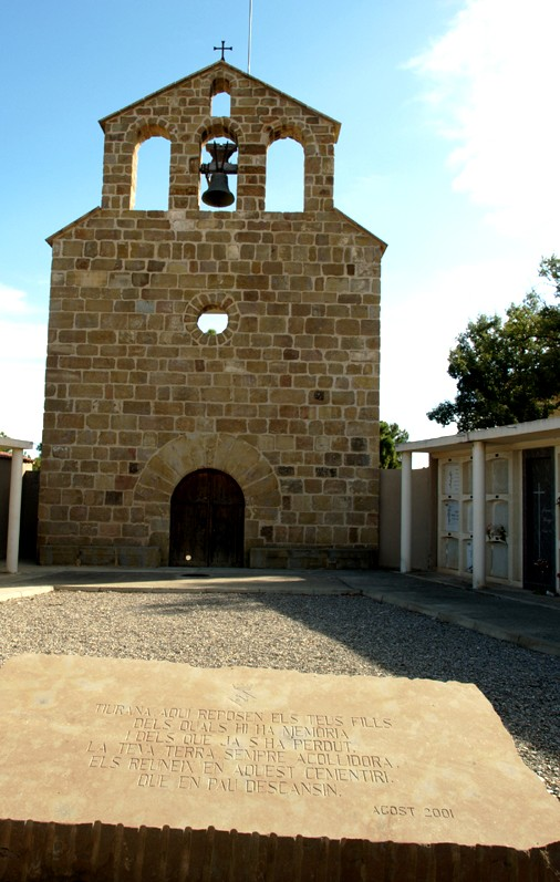 Façade of St. Peter's church, in Tiurana (Catalonia)